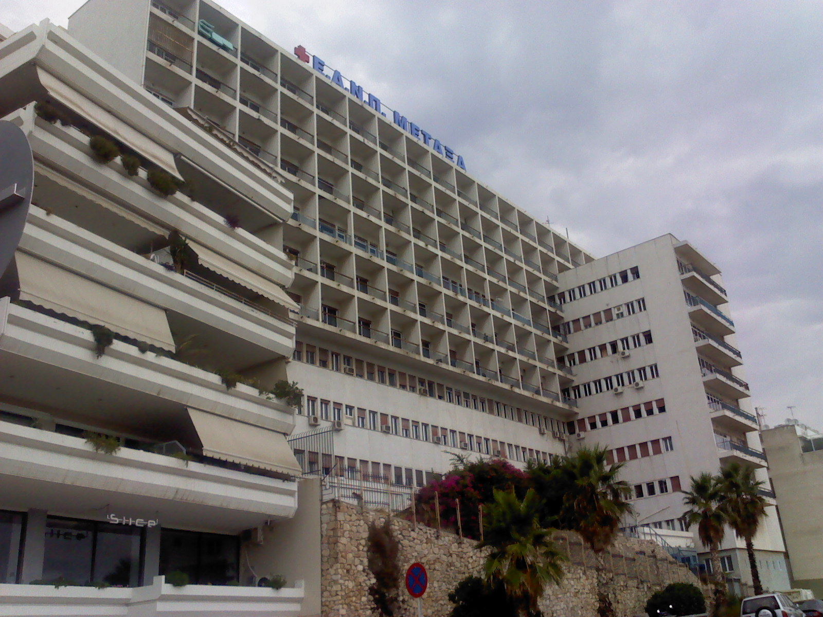 Hospital Metaxa